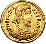 Eugenius. AD 392-394. AV Solidus (4.44 g). Mediolanum (Milan) mint. Struck 393-394 AD. D N EVGENI-VS P F AVG, pearl-diademed, draped, and cuirassed bust right VICTOR-IA AVGG, Eugenius and Theodosius I, both nimbate, seated facing, holding globe between them; behind and between, Victory standing front with outspread wings, palm below; M-D/COM. RIC IX 28; Depeyrot 11/1; Cohen 6. Good VF, light smoothing in fields and on face. Very rare. From the William H. Williams Collection. Ex Jean Elsen 57 (6 March 1999), lot 1914; Leu 65 (21-22 May 1996), lot 512.